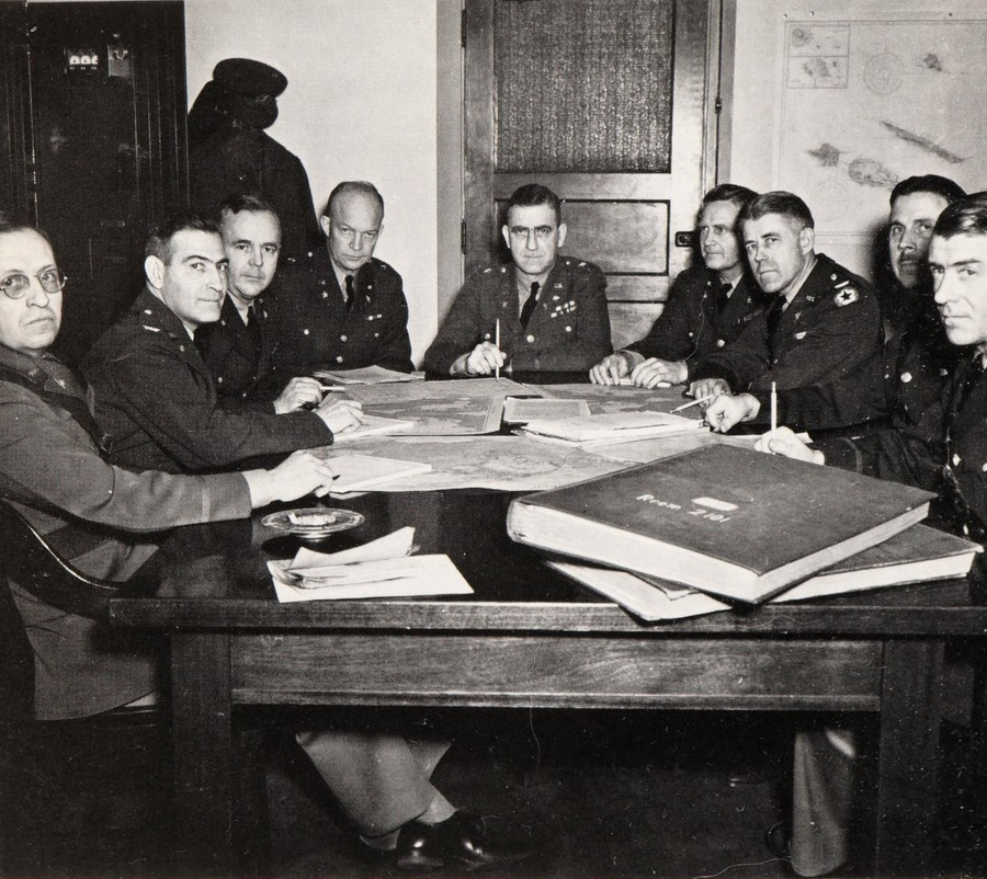 The meeting of War Plans Division, War Department General Staff in 1942. From left to right: William K. Harrison Jr., Lee S. Gerow, Robert W. Crawford, Dwight D. Eisenhower, Leonard T. Gerow, Thomas T. Handy, Stephen H. Sherrill, John L. McKee and Jay W. MacKelvie.